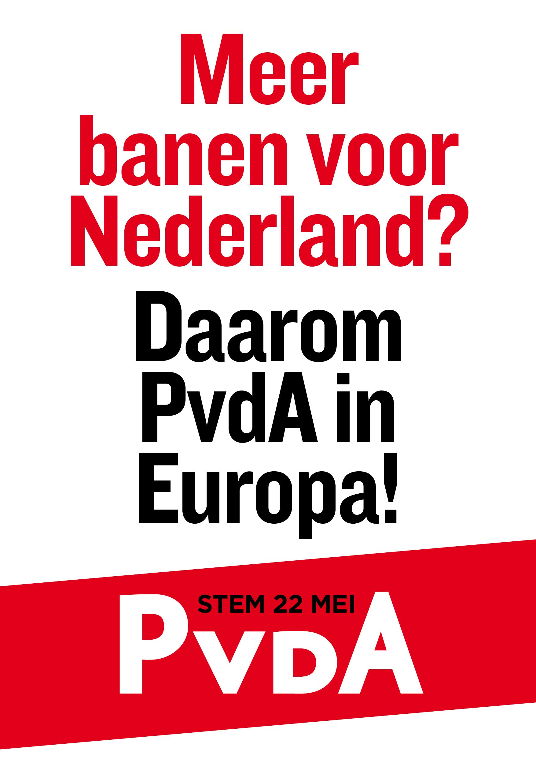 Poster voor de verkiezingen voor het Europees Parlement op 22 mei 2014.